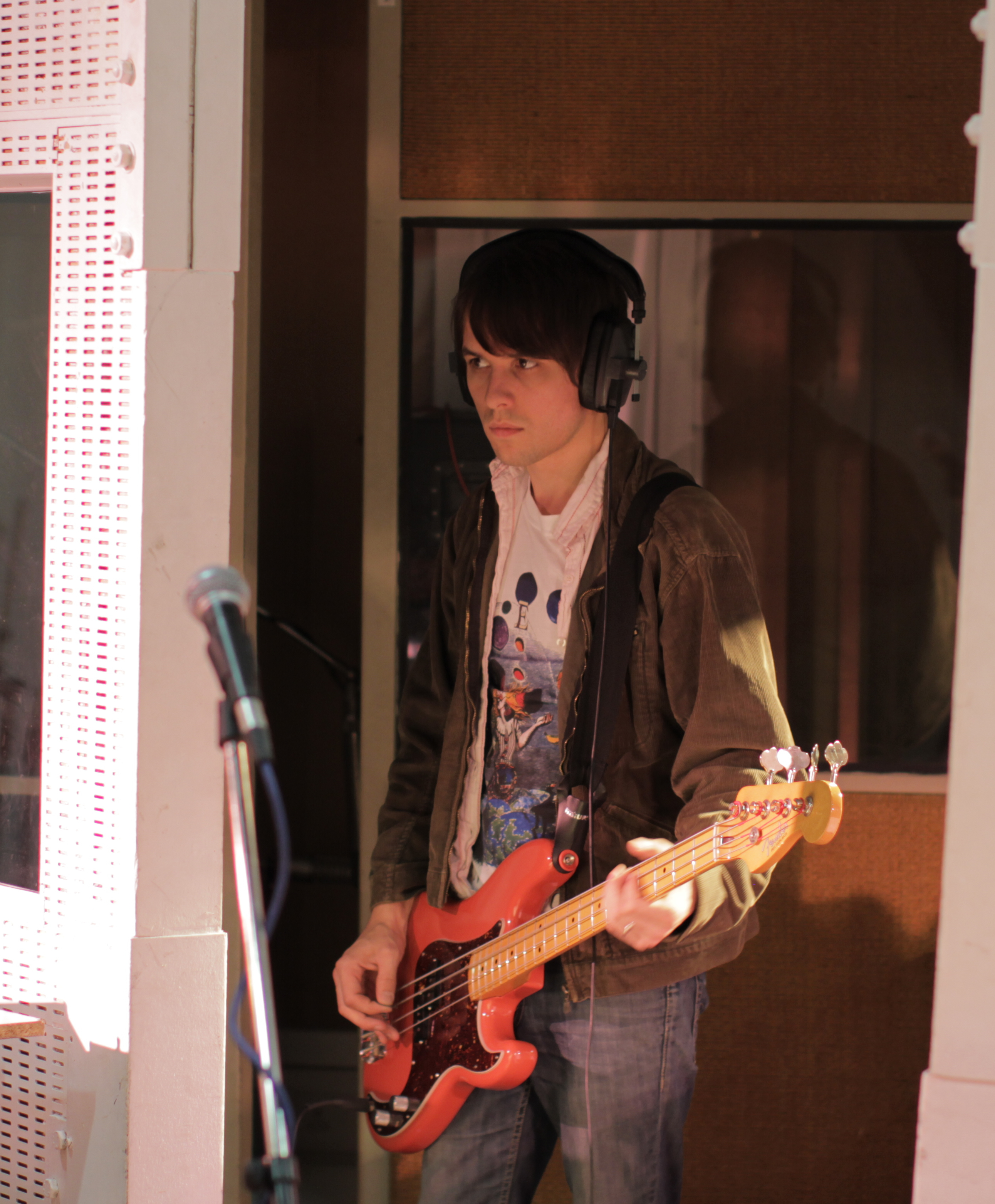 Gary Jarman at Abbey Road Studios, London, 19th October 2011